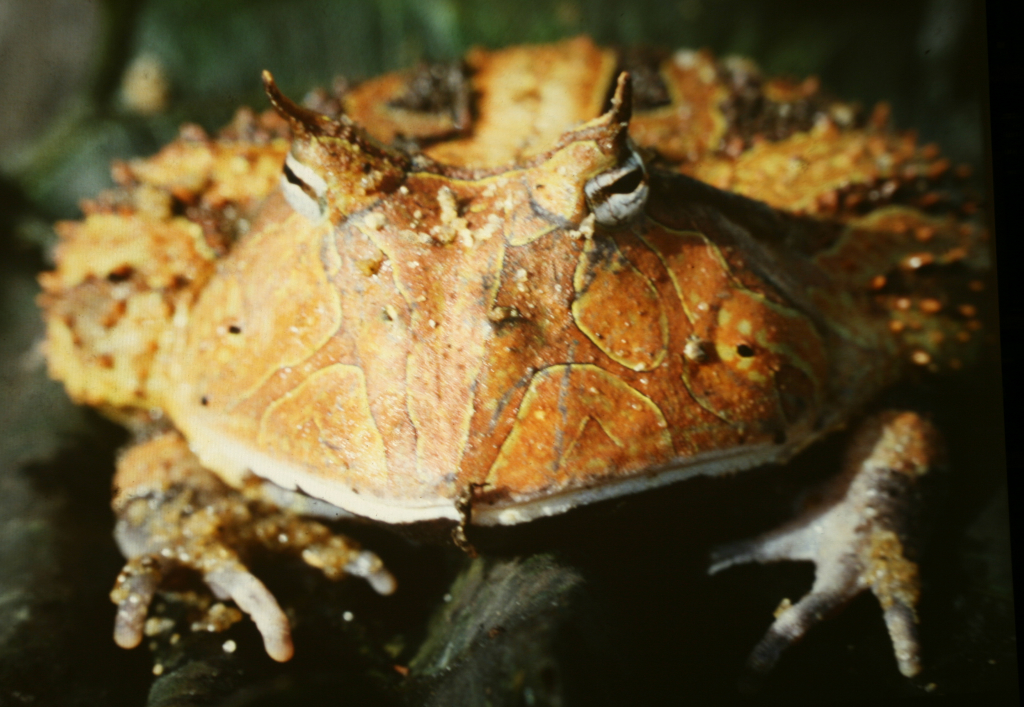 Ceratophrys cornuta . Photographed in Brownsberg nature park, Suriname, rainy season. About 1980